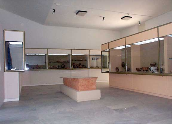 Interior view, image from the Archaeological Museum, Poliyiros, Central Macedonia, Greece